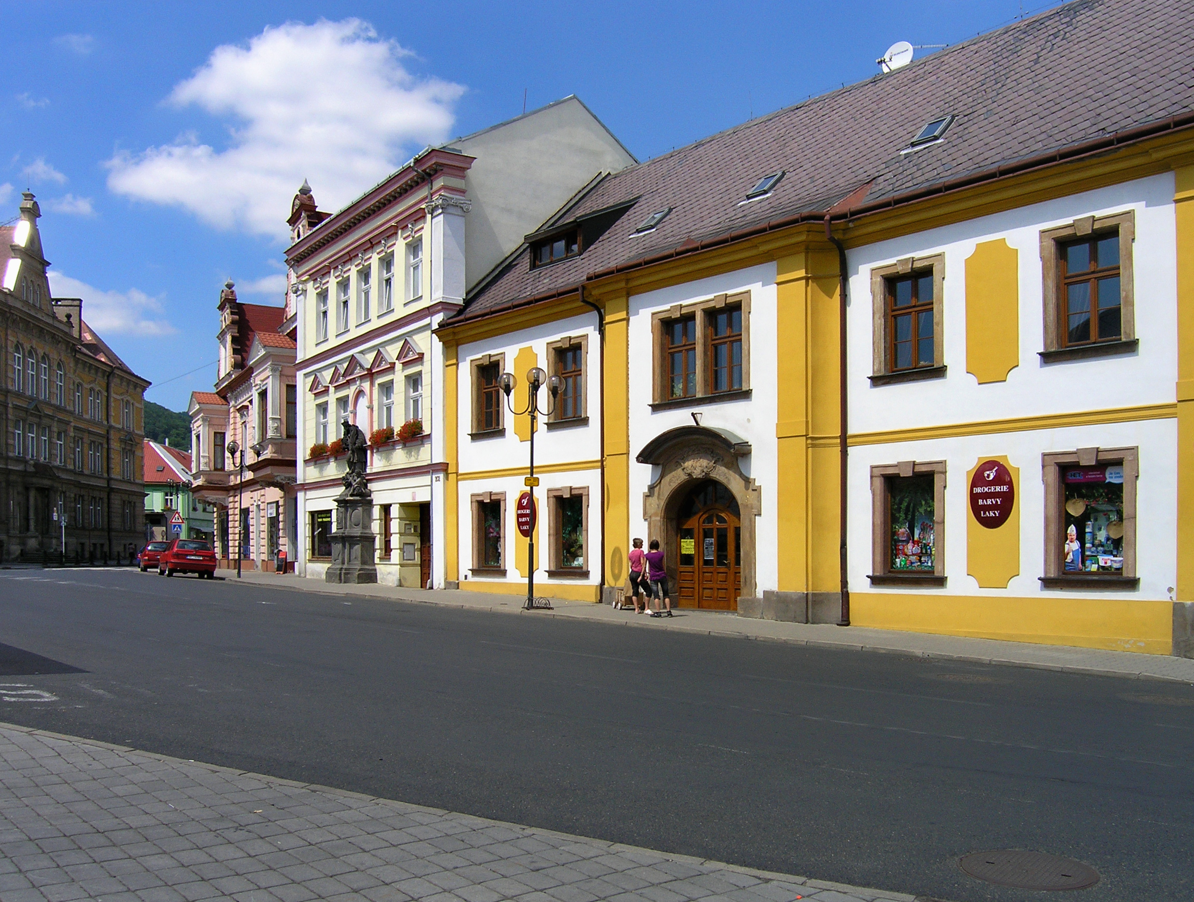 Klášterní square in Osek town, Czech Republic